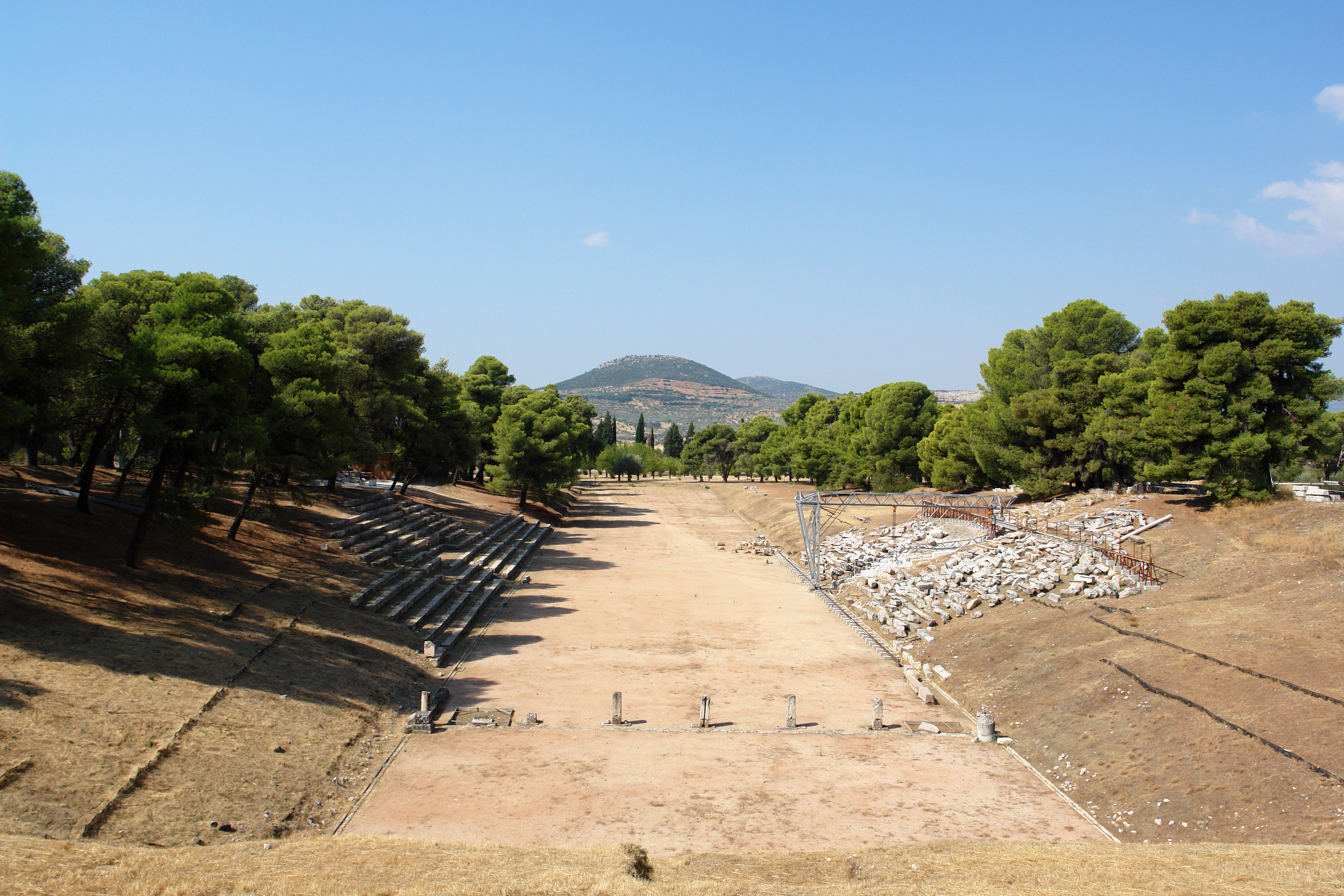 The stadion of ancient Epidauros.